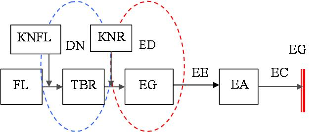 Molecular power. Block diagram of the macroscopic power system. Describes the structure of the system.